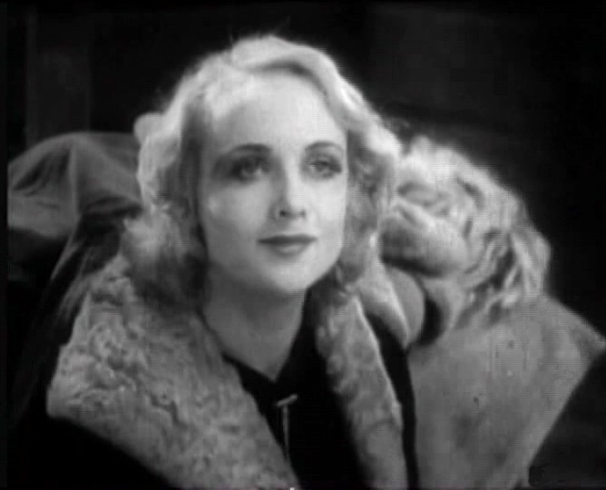 Screenshot of Carole Lombard from the film High Voltage